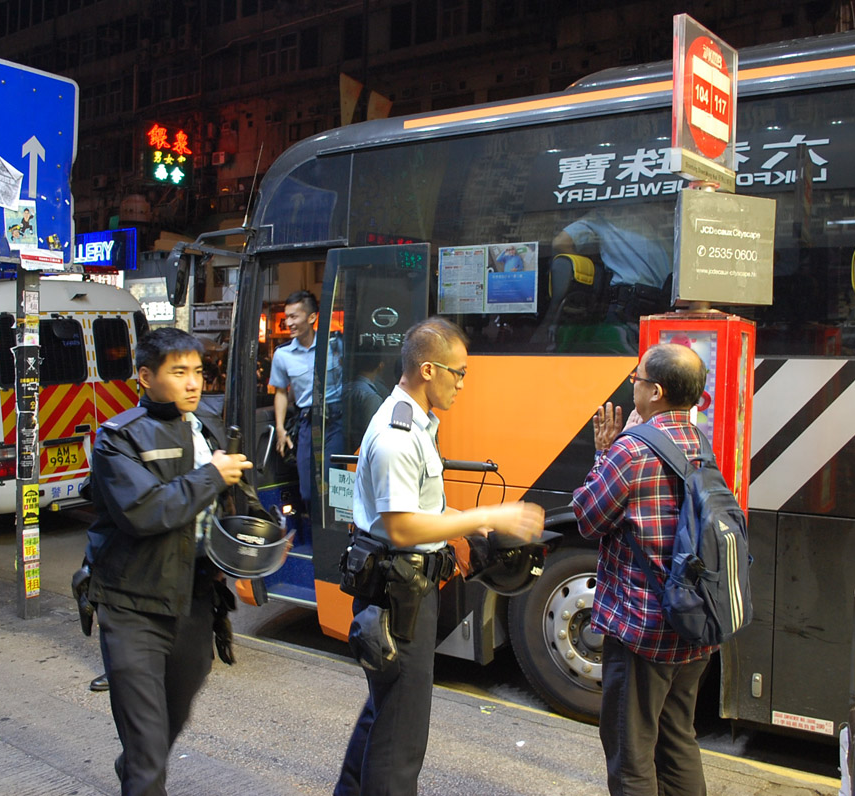 Umbrella Movement protests, Mong Kok, Hong Kong the evening of 26 November 2014. Police officers emerge from a tour bus on Nathan Road.